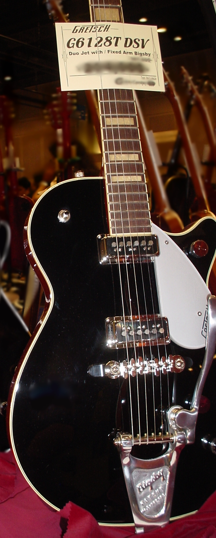 Gretsch Duo Jet G6128T DSV(with Bigsby) Tokyo Guitar Show 2007